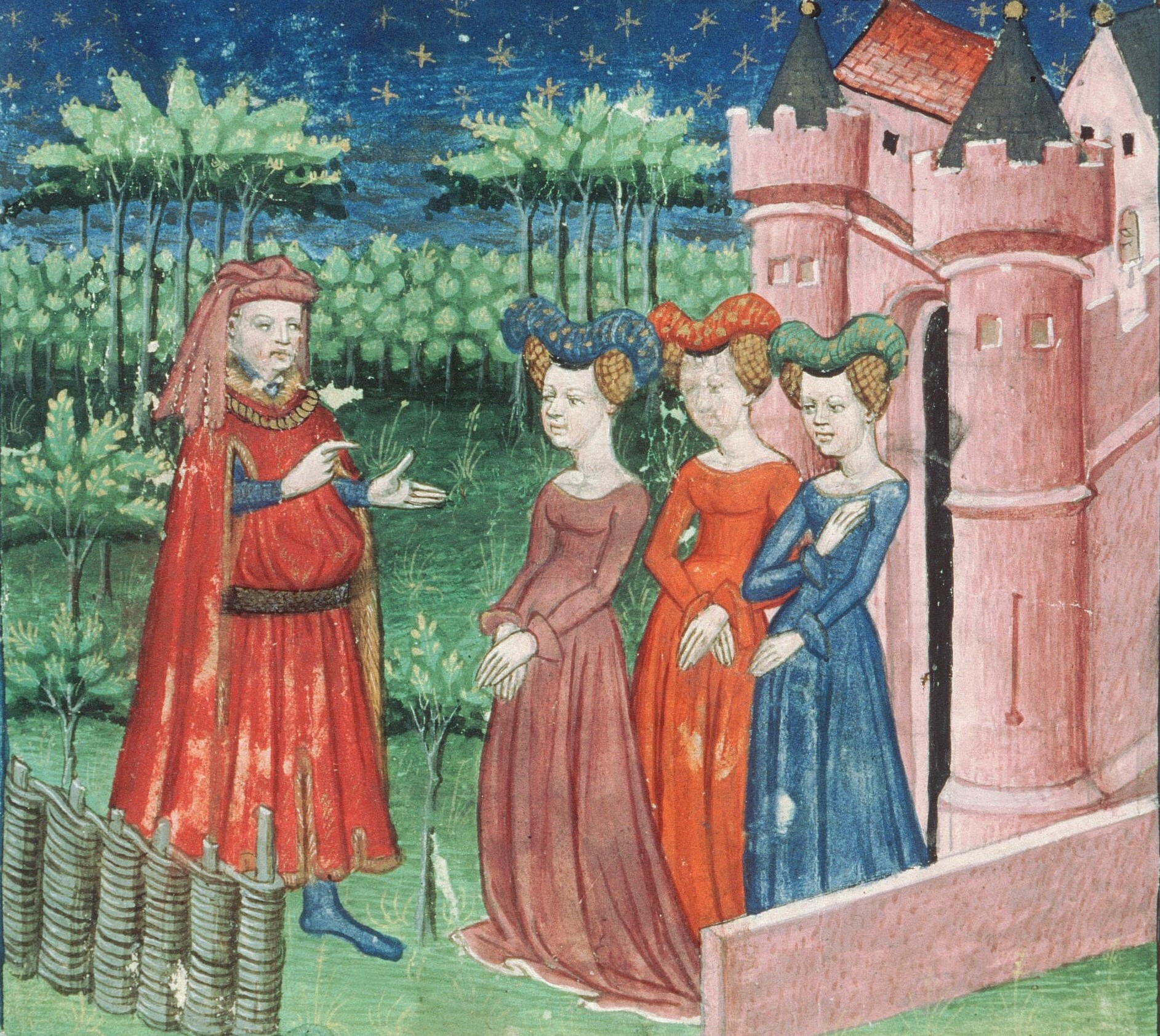 Geoffroi de La Tour Landry (i.e. the Knight of the Tower, the author of the book) is teaching to his daughters. Miniature from a manuscript of the Livre pour l'enseignement de ses filles (The Book of the Knight of the Tower) (Châteauroux, Bibliothèque Municipale, Ms 004, fol. 1) Аҧсшәа: Geoffroi de La Tour Landry en train d'enseigner à ses filles, enluminure tirée d'un manuscrit du Livre pour l'enseignement de ses filles du chevalier de La Tour Landry (Châteauroux, Bibliothèque Municipale, Ms 004, fol. 1)